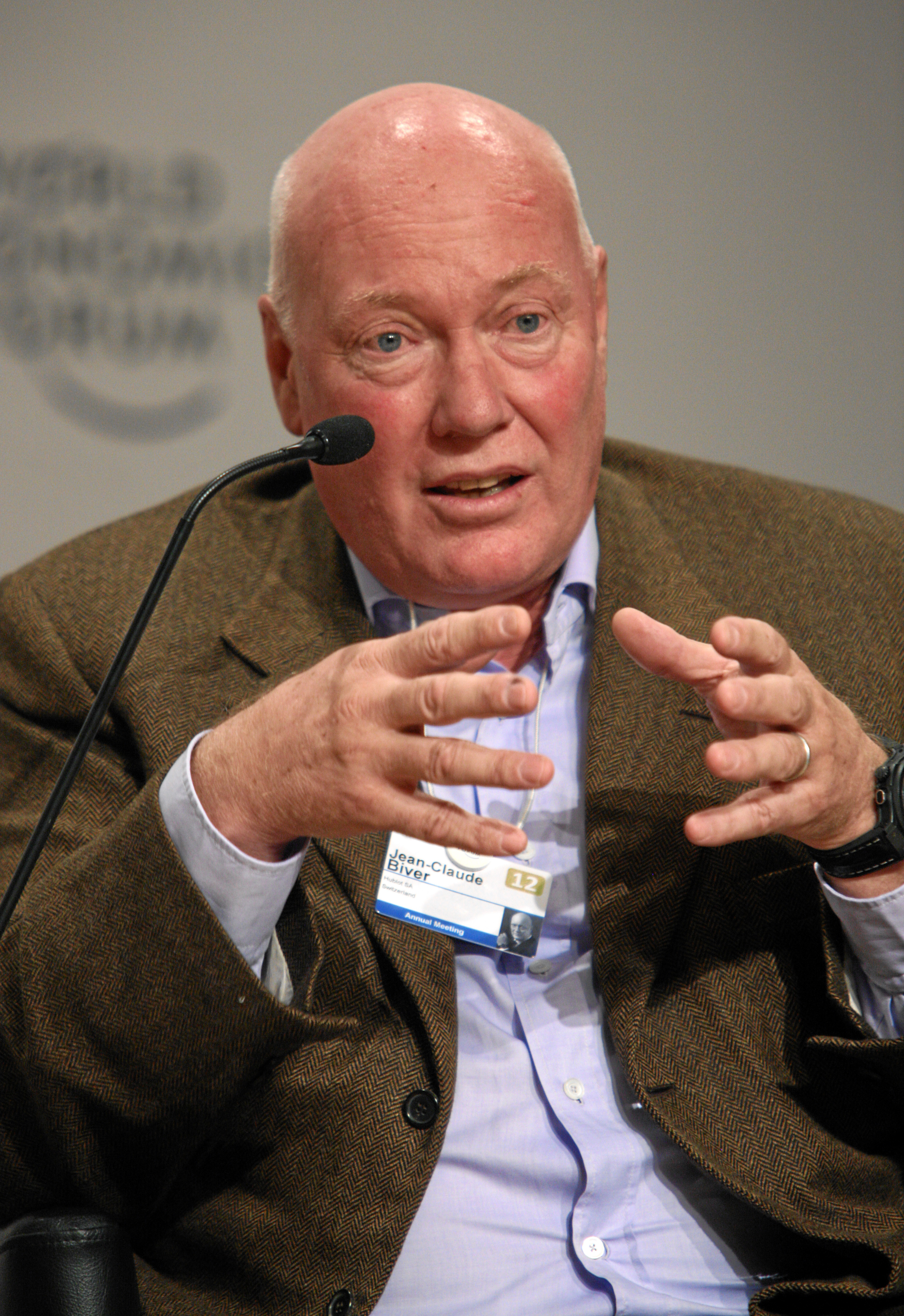 DAVOS/SWITZERLAND, 26JAN12 - Jean-Claude Biver, Chairman of the Board, Hublot, Switzerland captured during the session 'Responsible Leadership in Times of Crisis' at the Annual Meeting 2012 of the World Economic Forum at the Swiss Alpine High School (SAMD) in Davos, Switzerland, January 26, 2012.. . Copyright by World Economic Forum. by Remy Steinegger